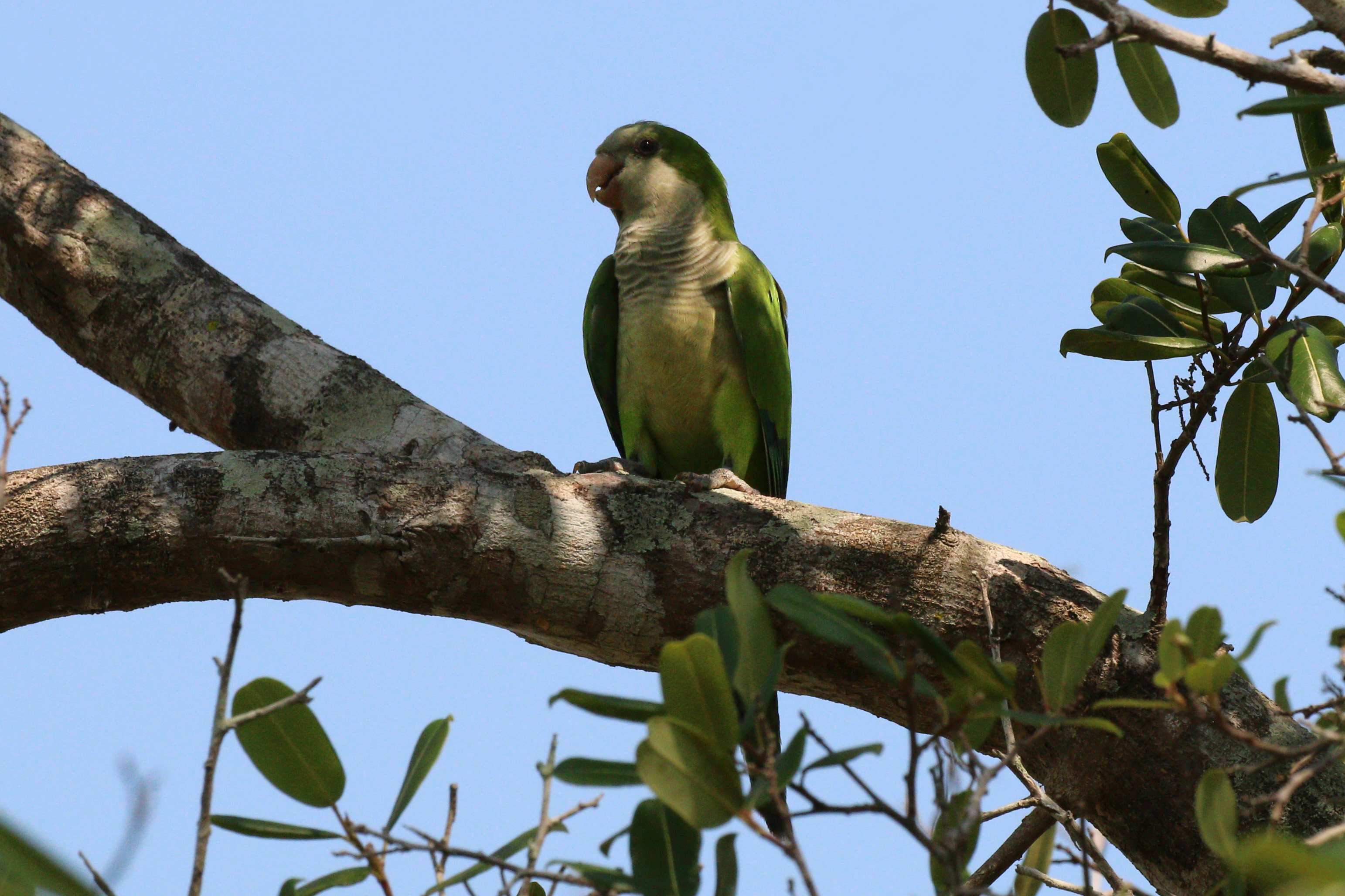 Monk parakeet (Myiopsitta monachus), the Pantanal, Brazil